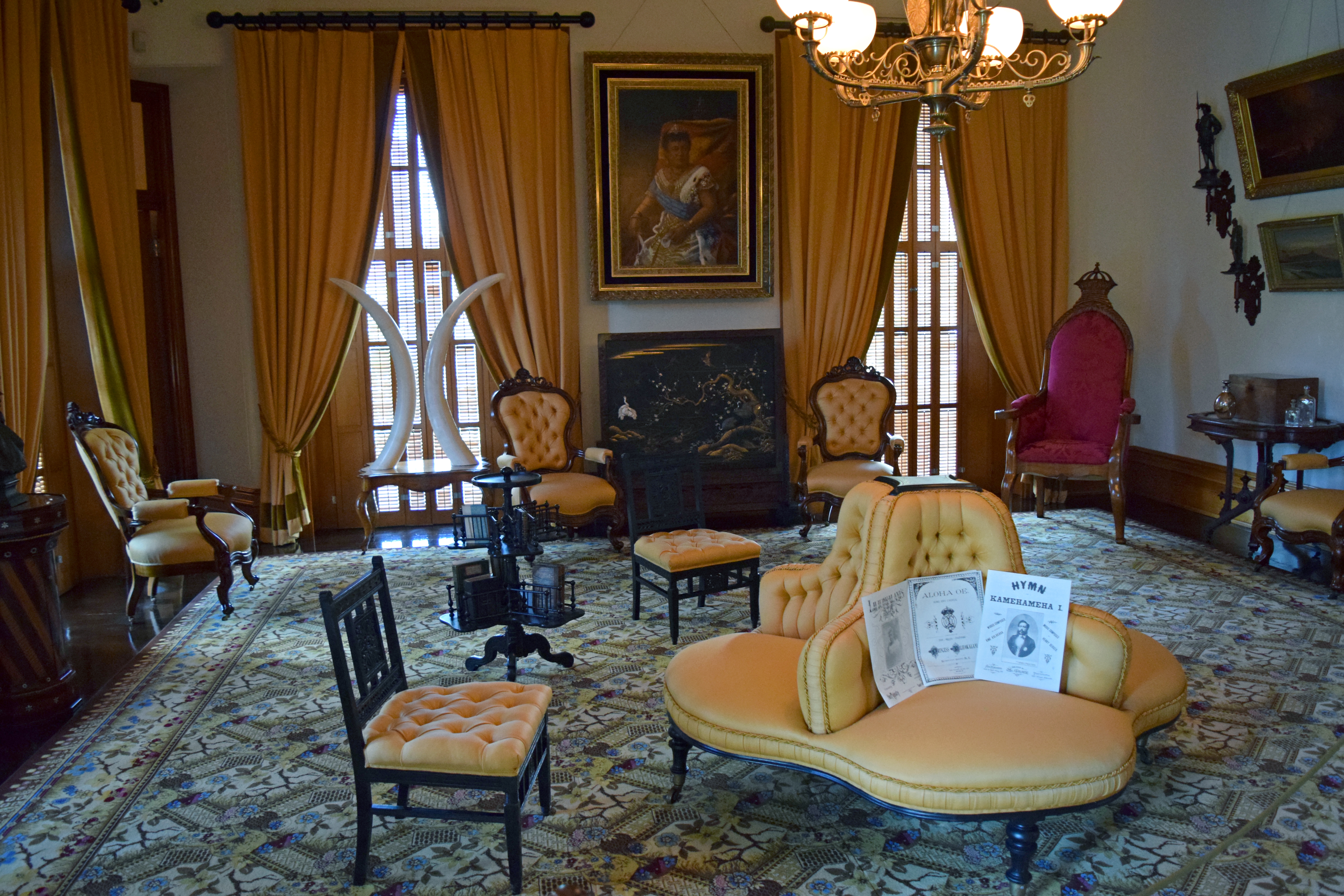 Iolani Palace Music Room